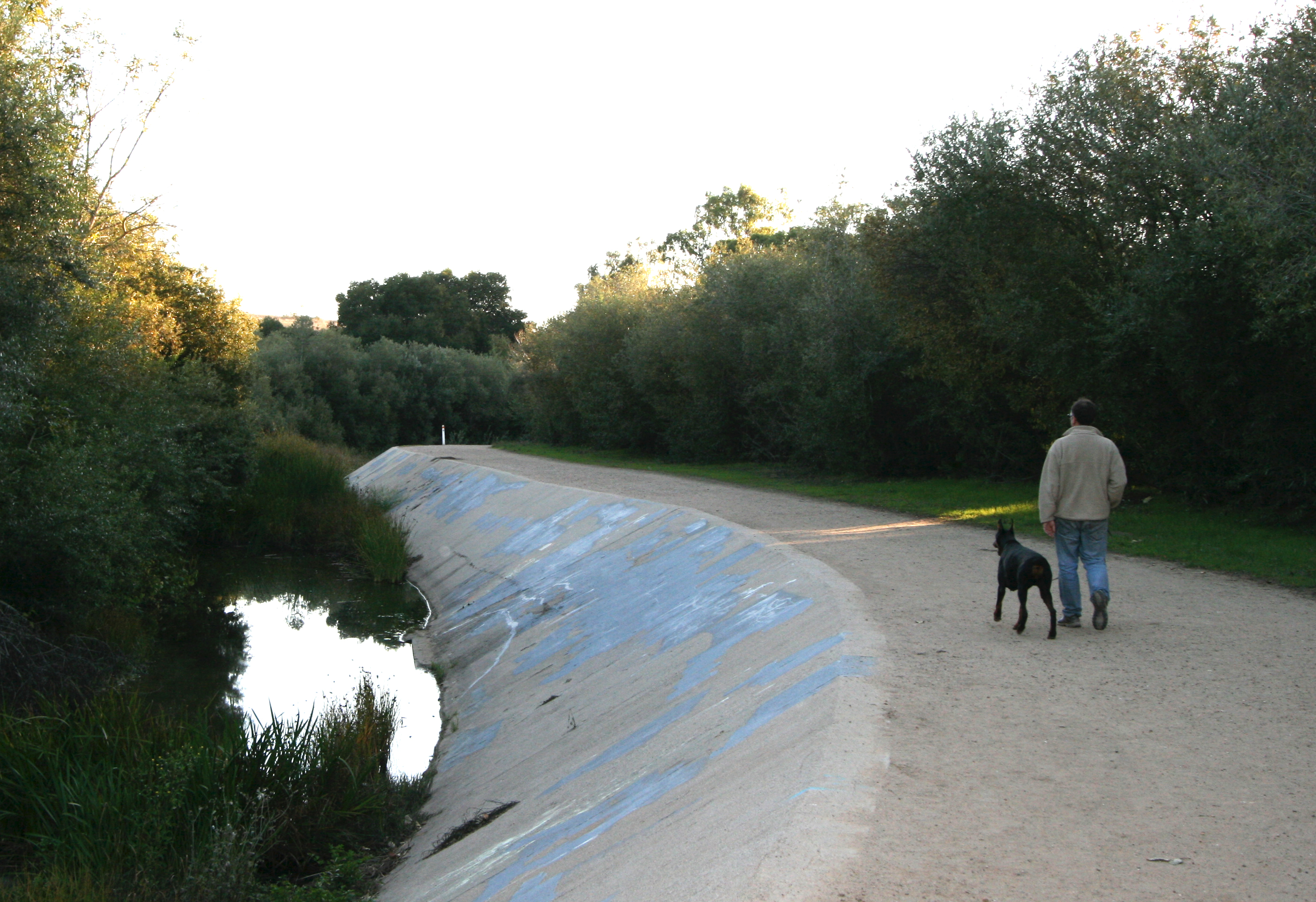 This view of Atascadero Creek runs along the north edge of More Mesa in Santa Barbara, California. Here you feel like you're in the middle of nowhere, but civilization is just steps away. This nature trail is popular with pedestrians, cyclists and equestrians alike. It runs from Modoc Road to Highway 217 in Goleta.